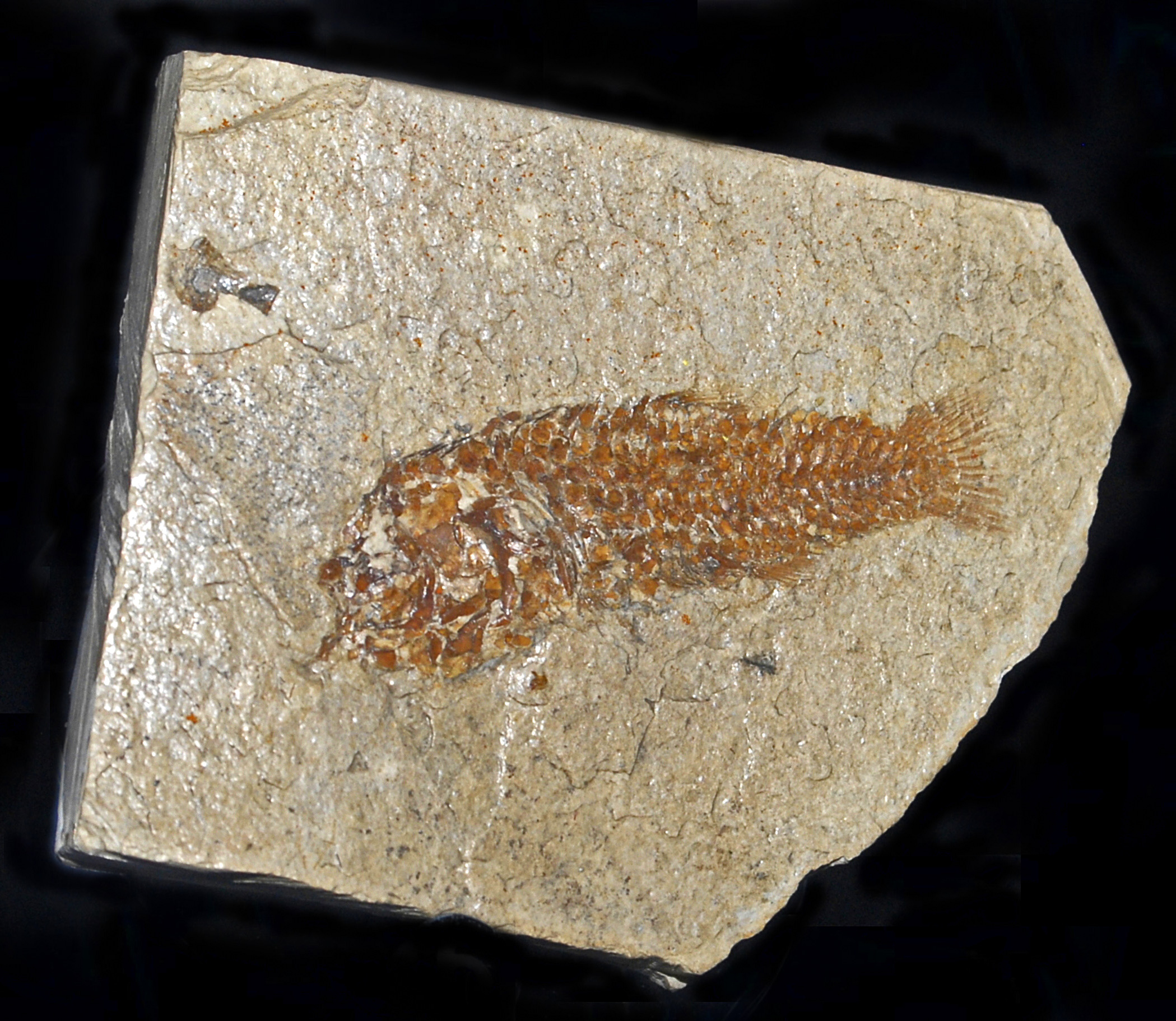 Fossil of Aphanius crassicaudus, on display at the Museo Civico Craveri di Scienze Naturali - Bra